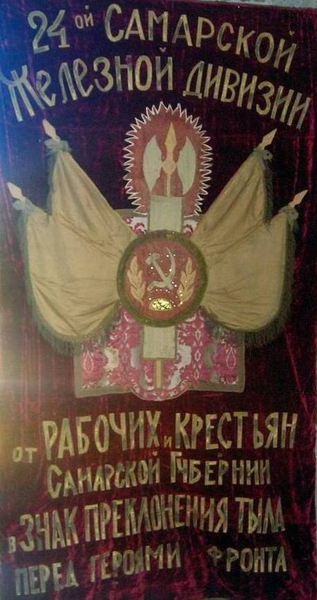 The banner of the 24th Samara «Iron» Division presented by the workers and peasants of Samara Gubernia, Soviet Russia.